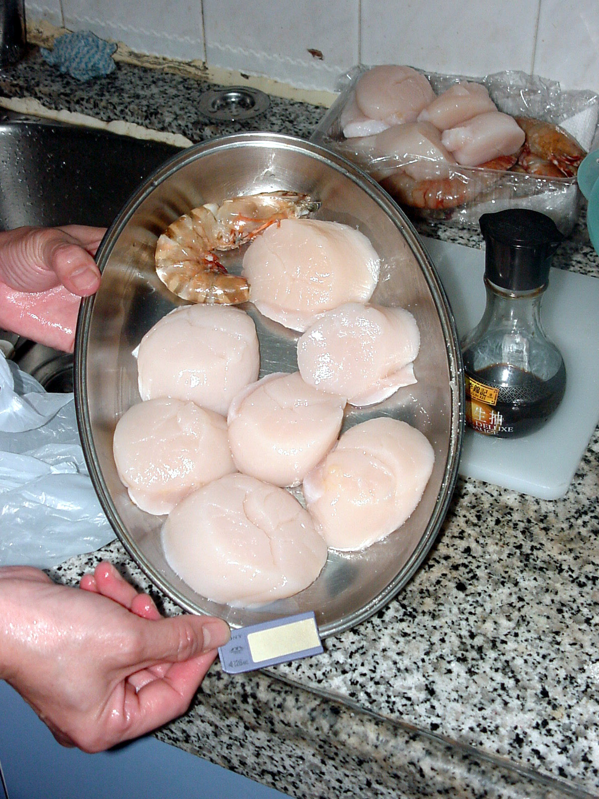 Large scallops with a shrimp and a Sony 128MB Memory Stick as size comparison